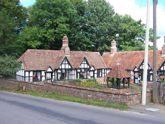 Boultbee Cottage at Emery Down. This beautiful block of cottages is on the main road through the village of Emery Down near Lyndhurst.